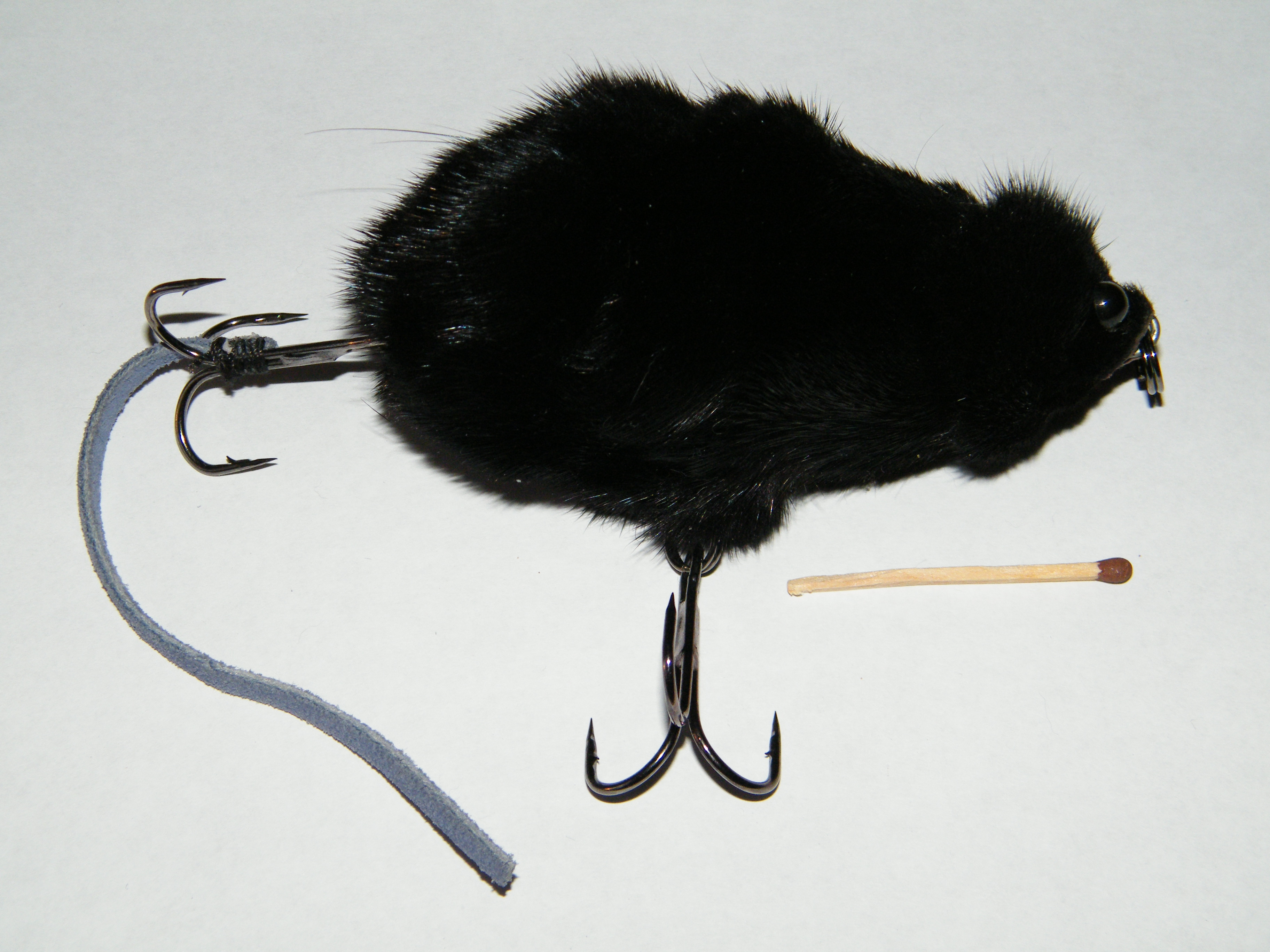 Mouse fishing lure